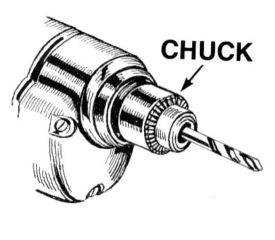 line art drawing of a chuck.